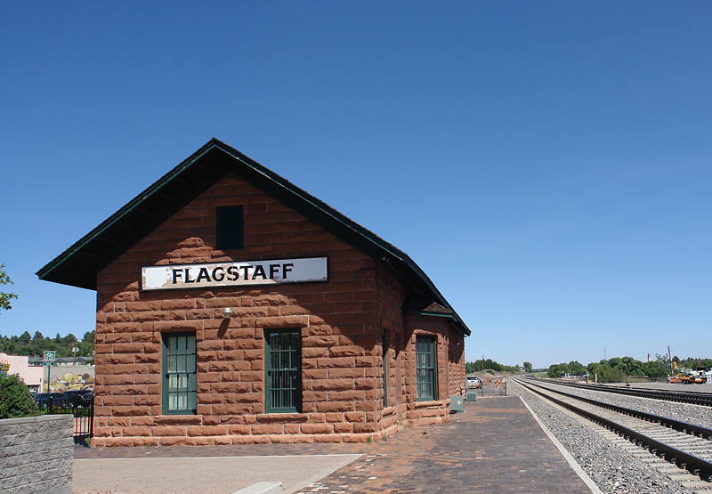 The former Atlantic and Pacific Railroad station in Flagstaff, Arizona, USA. Built in 1886 as a passenger/freight depot, it is now an office for the BNSF Railway. Adjacent to the Flagstaff Santa Fe—Amtrak station.